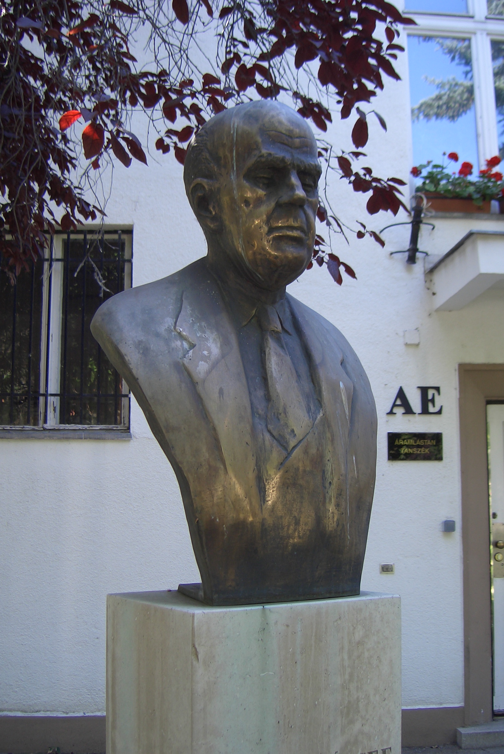 Bust of Professor József Gruber (1915-1972) at Budapest Technical_University (Building AE)